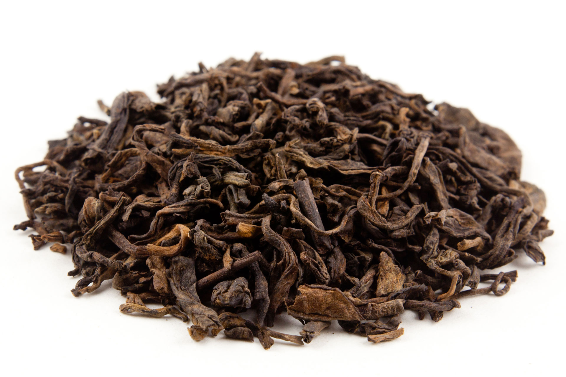 Chinese Chinese Pu Erh Tea